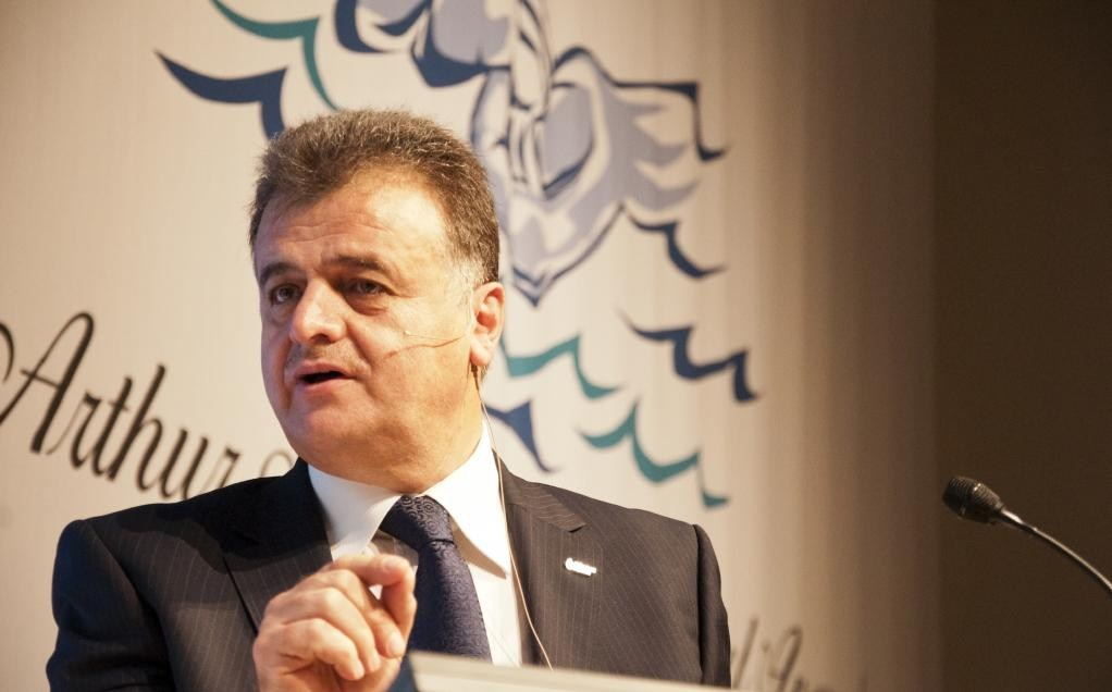 Shaher Sae´d